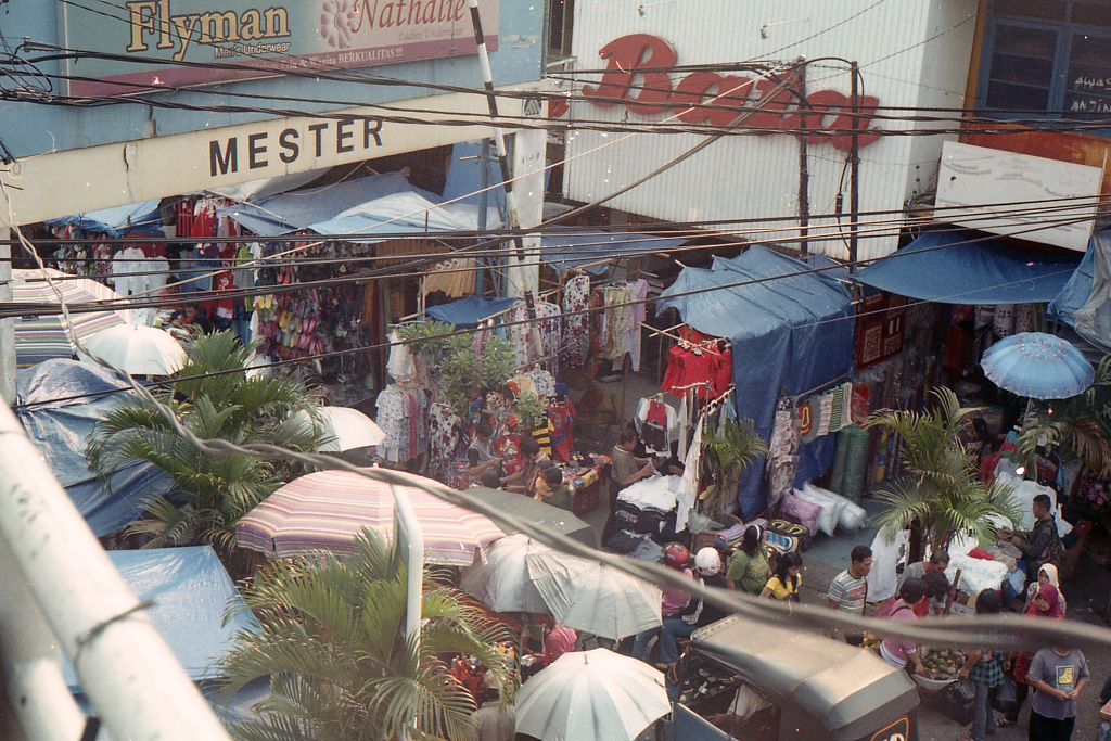 Mesteer Cornelis marketplace, Jatinegara, East Jakarta, Indonesia